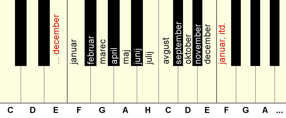 Metaphor - months and piano keys